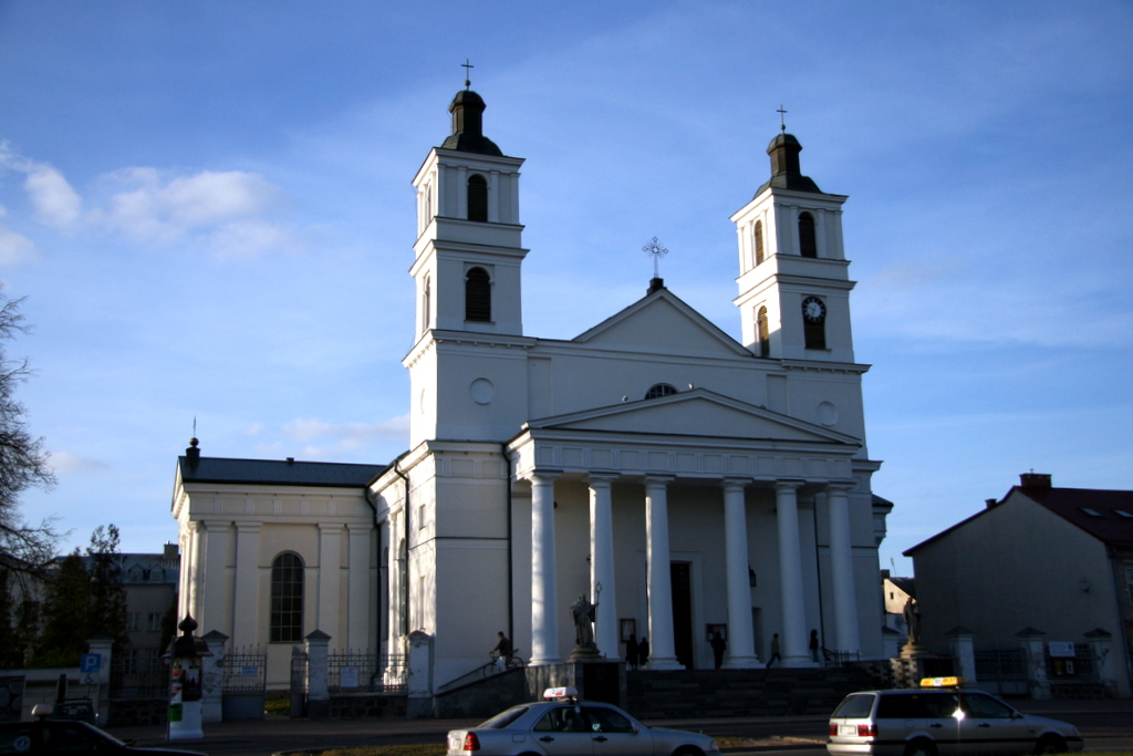 St. Alexander's church in Suwałki, Poland